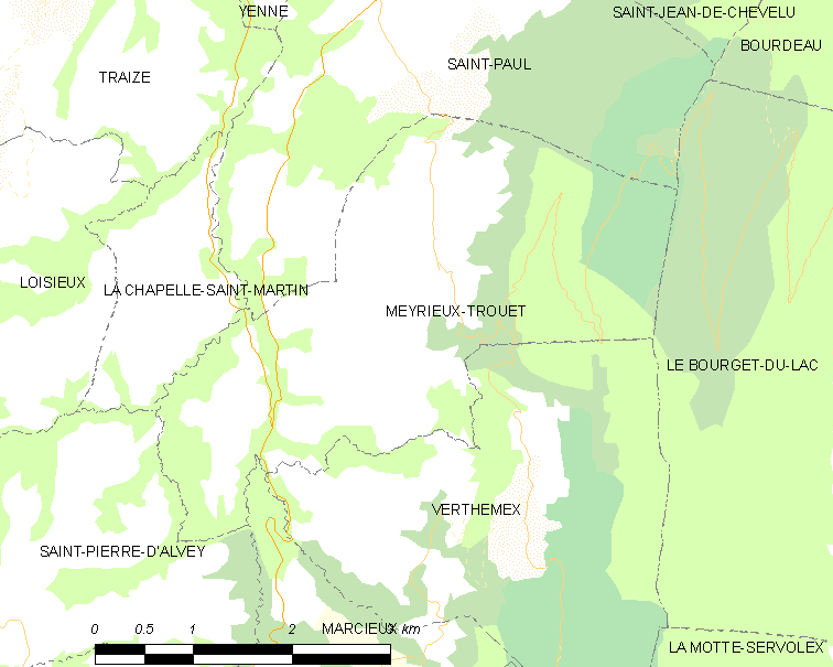 Map of French municipality